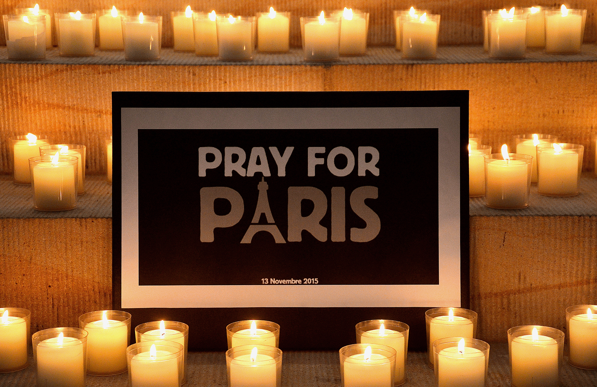 "Pray for Paris" in the Hildesheim Cathedral concerning the November 2015 Paris attacks ...